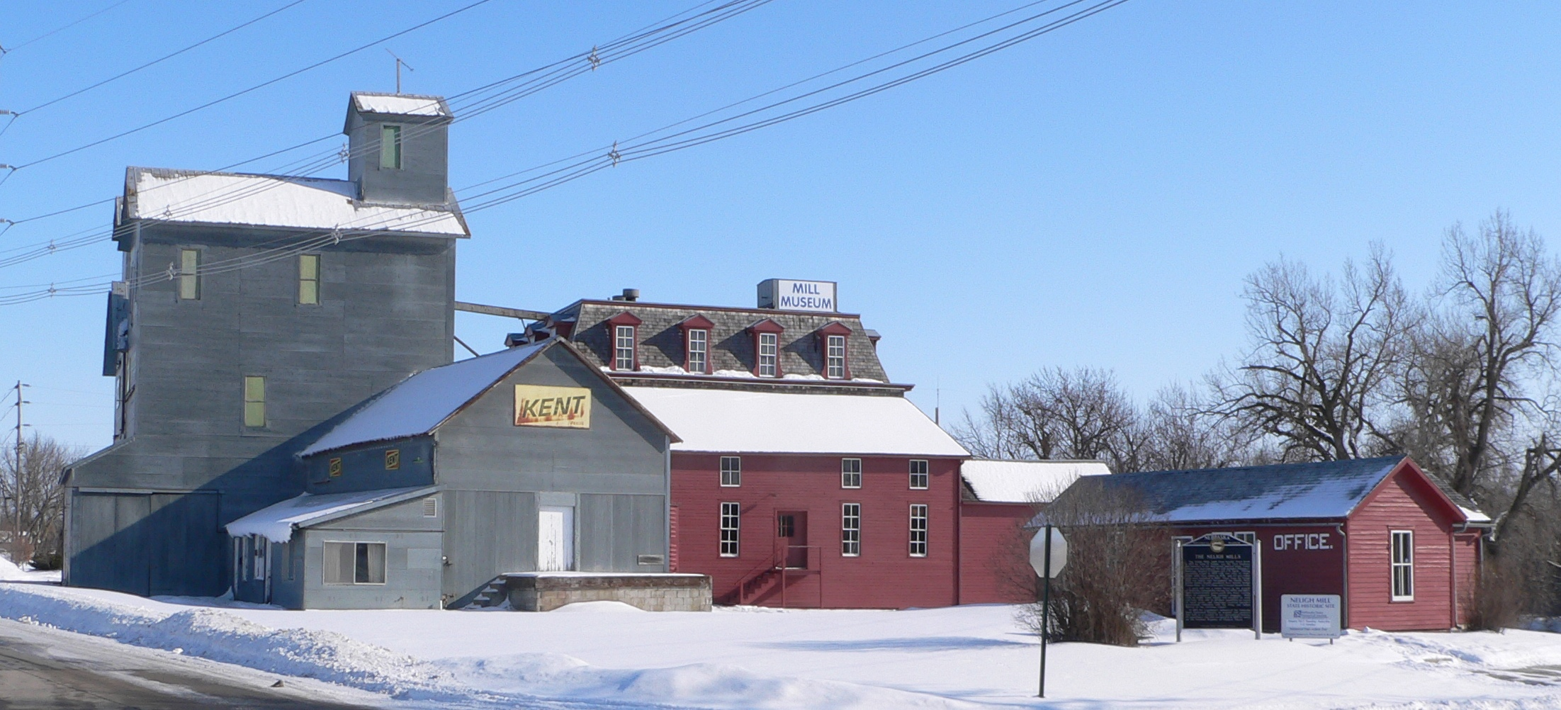 Neligh Mill on the bank of the Elkhorn River in Neligh, Nebraska; seen from the northwest. The mill was built in 1873, and is listed in the National Register of Historic Places. It is now operated as a museum by the Nebraska State Historical Society.